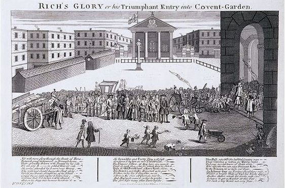 John Rich taking possession of Covent Garden Theatre in 1732. Its first performance was The Way of the World.